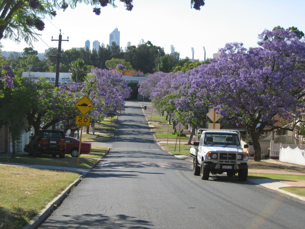 Howick Street, Burswood, Western Australia.